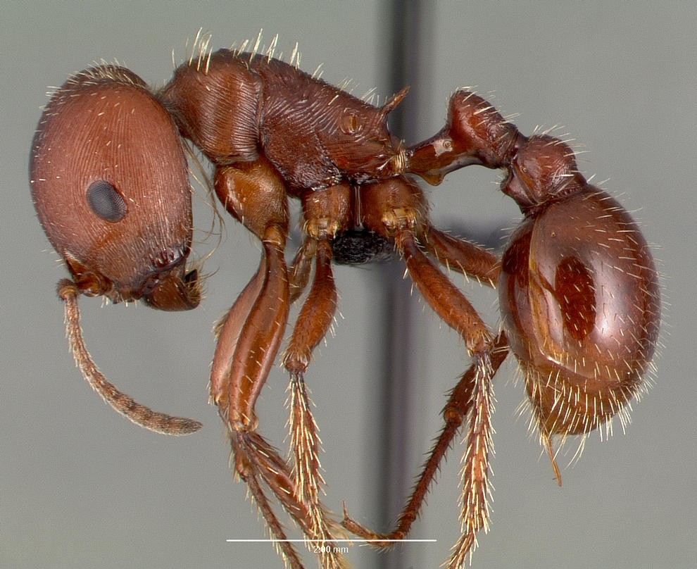 Profile view of ant Pogonomyrmex barbatus specimen casent0006306.